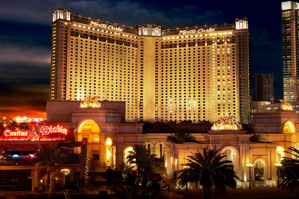 Exterior view of Monte Carlo Resort and Casino (outdoors) released by MGM Resorts International under Attribution-ShareAlike Creative Commons license specifically for use on Wikipedia.